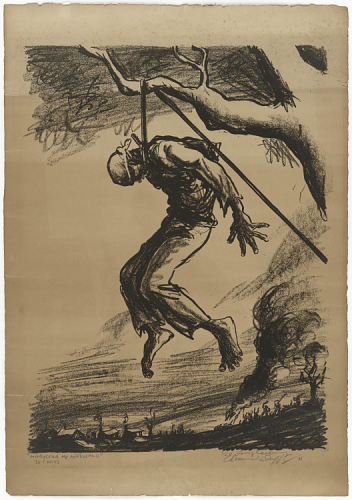 Edmund Duffy Depiction of the lynching of a man (Matthew Williams). His body is hanging from a tree. The rope is around his neck and pulled over a tree branch. There is a bandage wrapped around his head and his hands and feet are depicted as though he is jerking in pain. His fingers are splayed and toes are curled. There are small figures of people and houses at the bottom of the drawing.